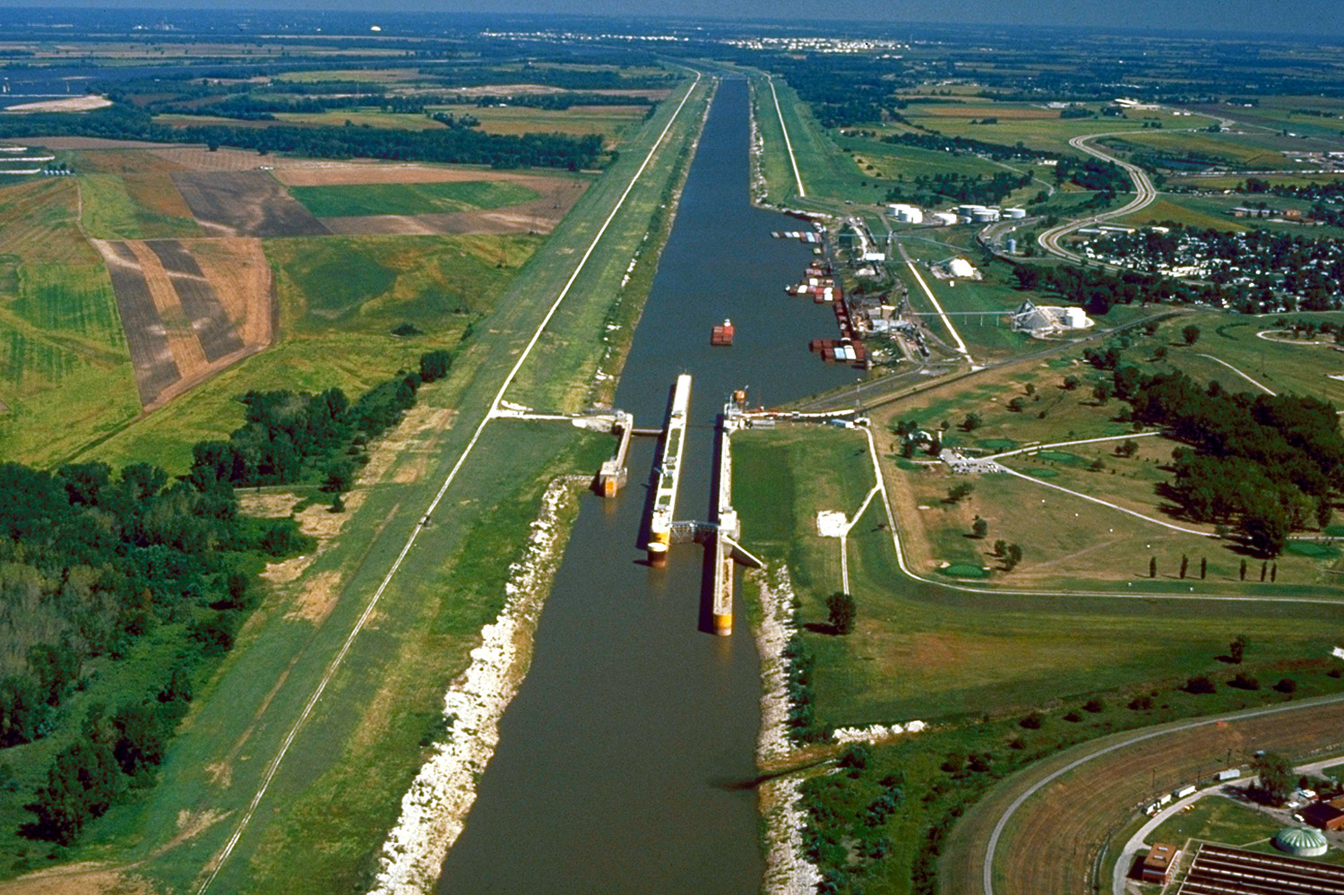 The Chain of Rocks Canal and Chain of Rocks Lock, also known as Lock number 27, on the Mississippi River near St. Louis, Missouri, USA. The canal and locks are physically situated within the state of Illinois near the towns of Granite City and Madison. The U.S. Army Corps of Engineers constructed the canal to bypass a rocky stretch of the Mississippi River known as the Chain of Rocks. These locks are the last locks heading down the Mississippi and are the only locks on the Mississippi River south of the confluence with the Missouri River. The towns in the far distance in the picture are Hartford, Wood River, and East Alton, Illinois